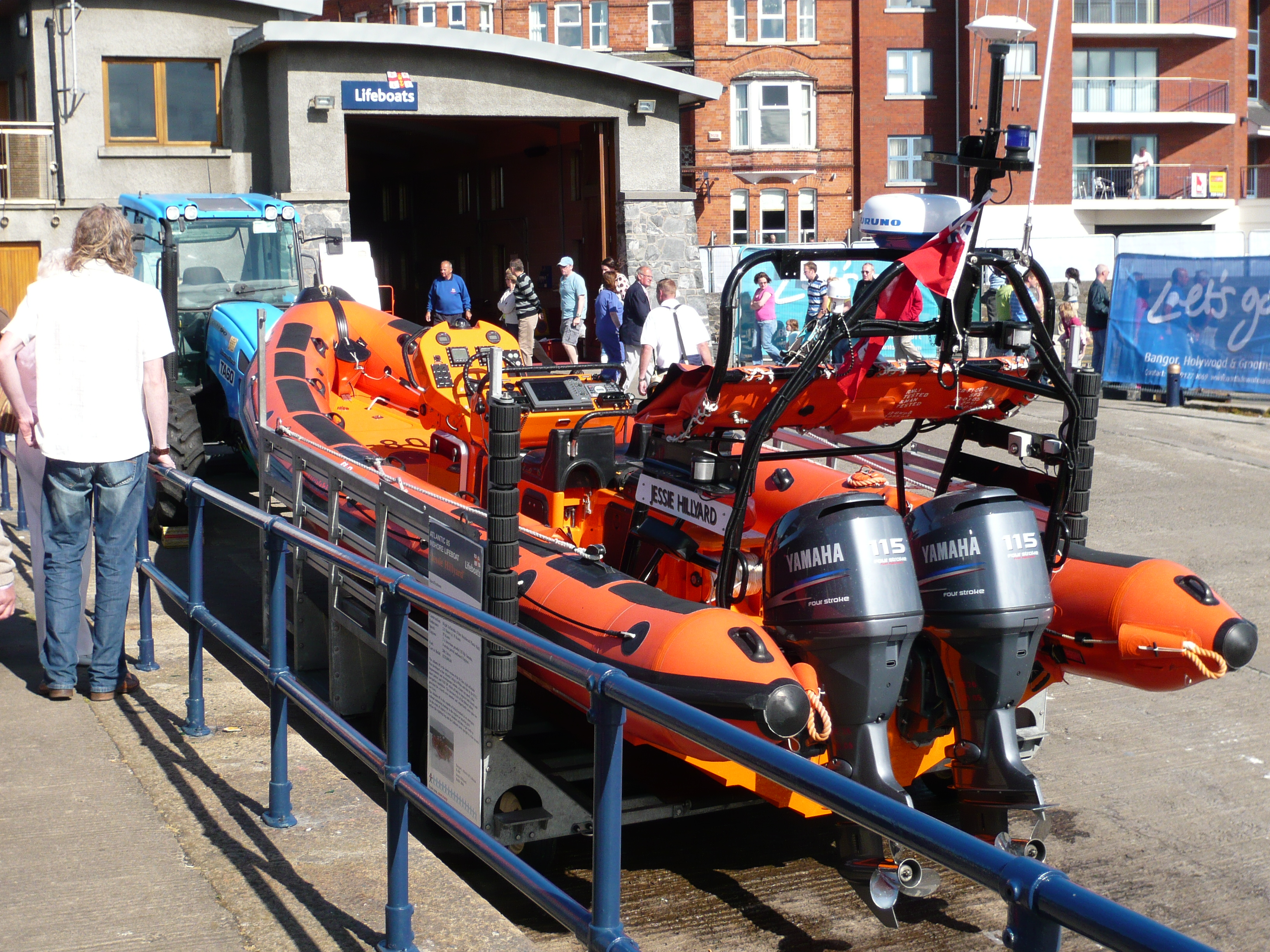 Lifeboat, the Jesse Hilliard